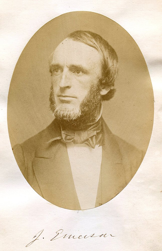 Joseph Emerson (May 28, 1821-August 4, 1900), Beloit College professor